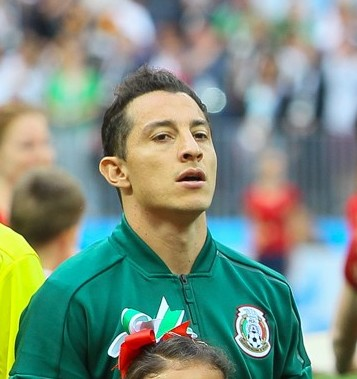 Miguel Layún, Francisco Guillermo Ochoa, Héctor Herrera, Andrés Guardado